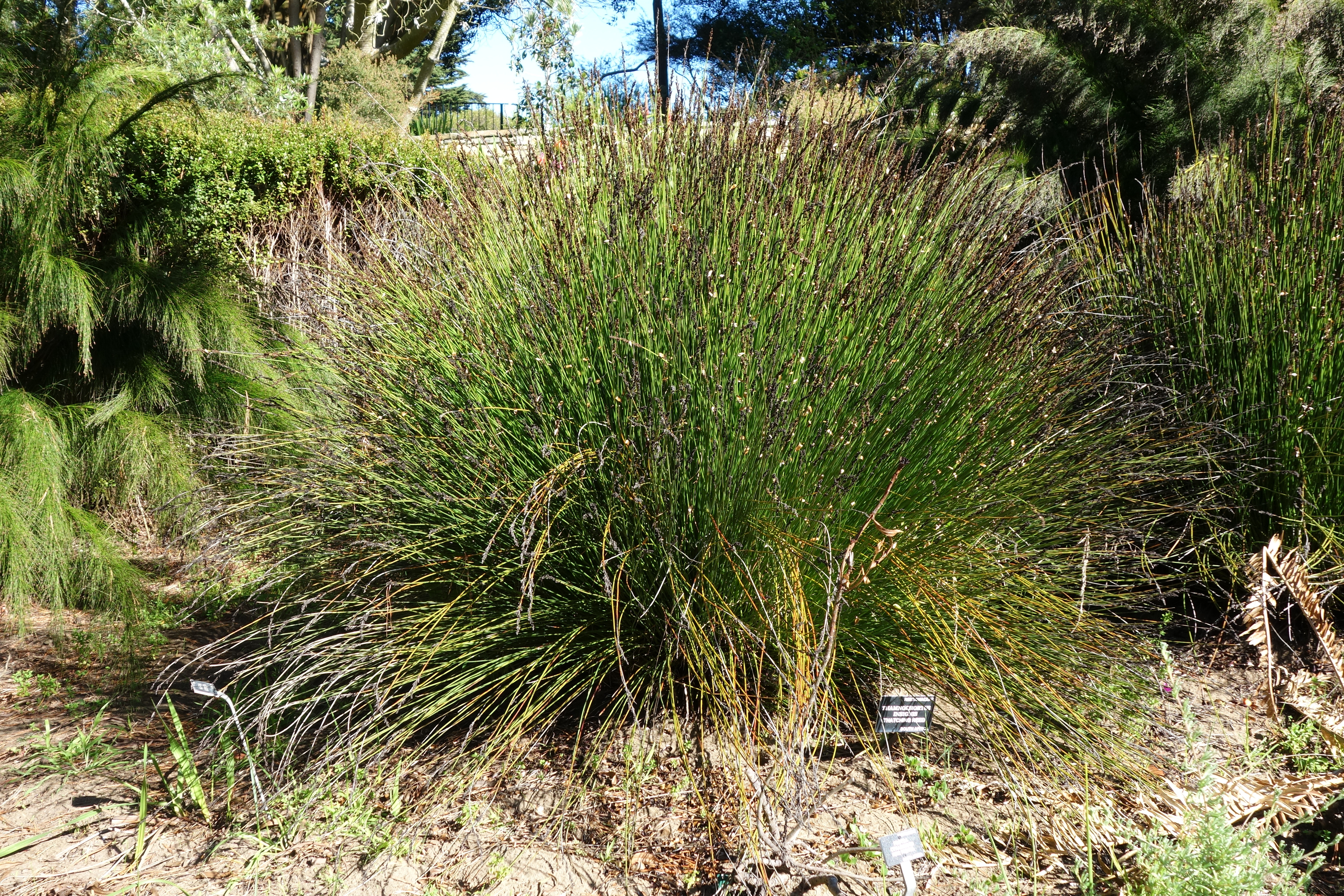 Botanical specimen in the San Francisco Botanical Garden, San Francisco, California, USA.